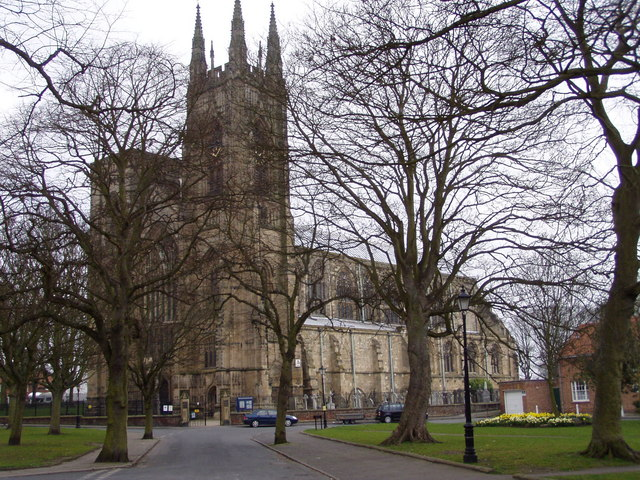 Bridlington Priory Church, Bridlington, East Riding of Yorkshire, England.